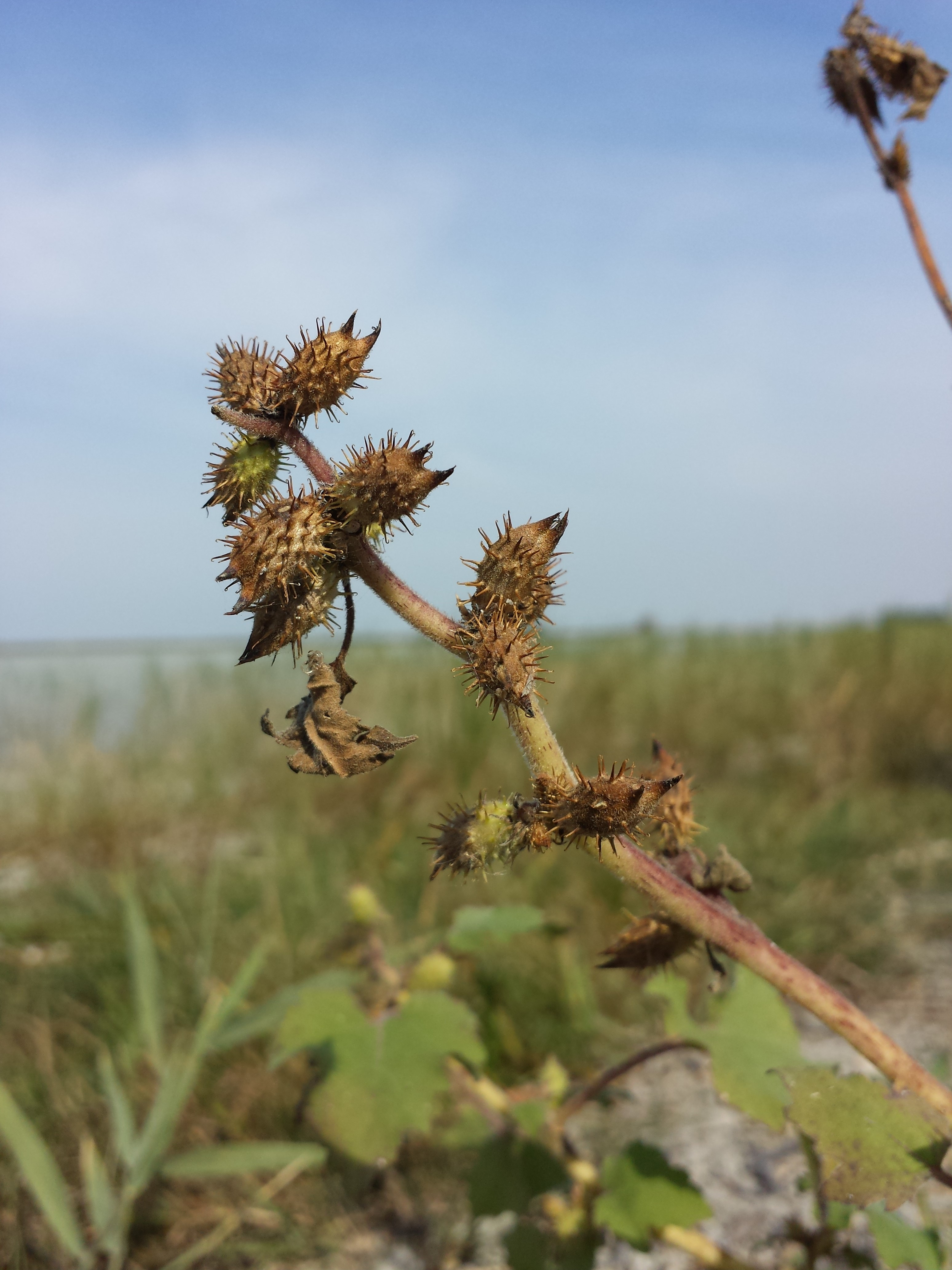 Fruit capitula Taxonym: Xanthium strumarium s. str. ss Fischer et al. EfÖLS 2008 ISBN 978-3-85474-187-9 Location: Darscho near Apetlon, district Neusiedl am See, Burgenland, Austria - ca. 120 m a.s.l. Habitat: shore of a small salt lake